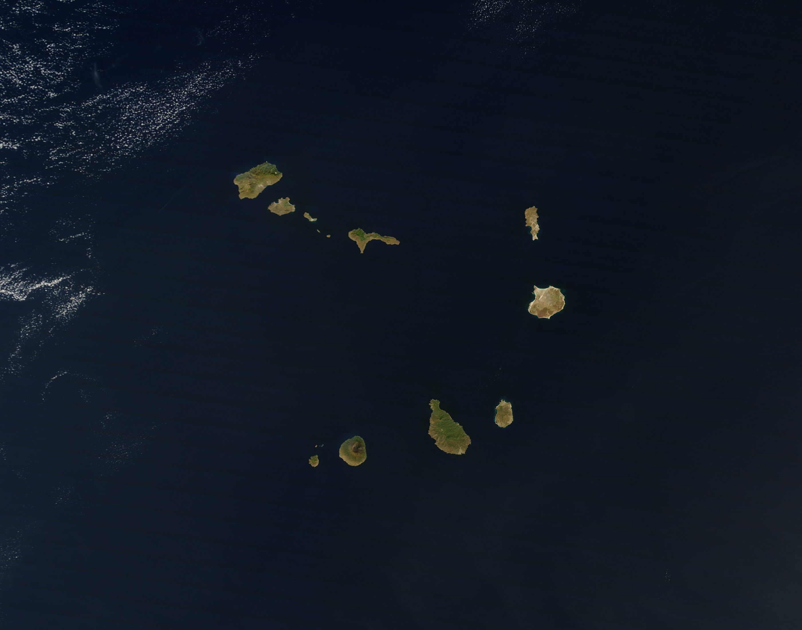 A satellite view of Cape Verde islands taken by Terra, 250 meters per pixel.